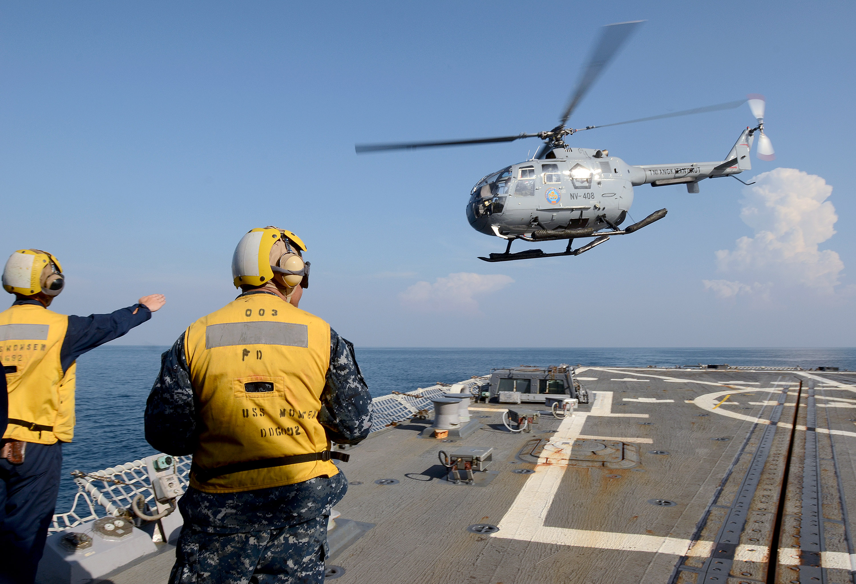 U.S. Navy Boatswain's Mate 3rd Class Matthew Fountain, left, and Boatswain's Mate 2nd Class Carlos Medina guide an Indonesian navy Bo105 helicopter during flight operations aboard the guided missile destroyer USS Momsen (DDG 92) in the Java Sea May 24, 2013, during Cooperation Afloat Readiness and Training (CARAT) 2013. CARAT is a series of bilateral exercises held annually in Southeast Asia to strengthen relationships and enhance force readiness.